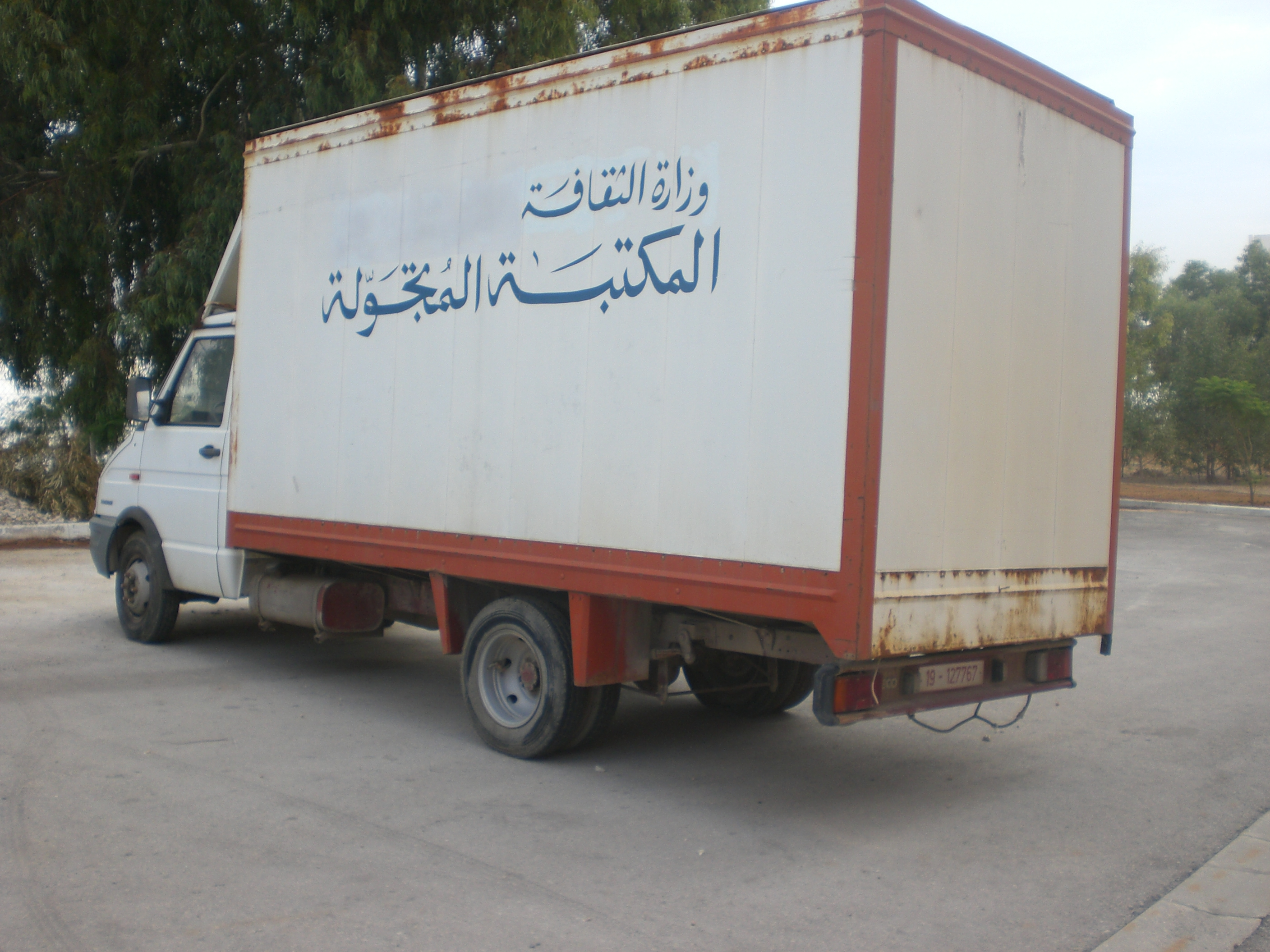 Mooving Library -Tunisia